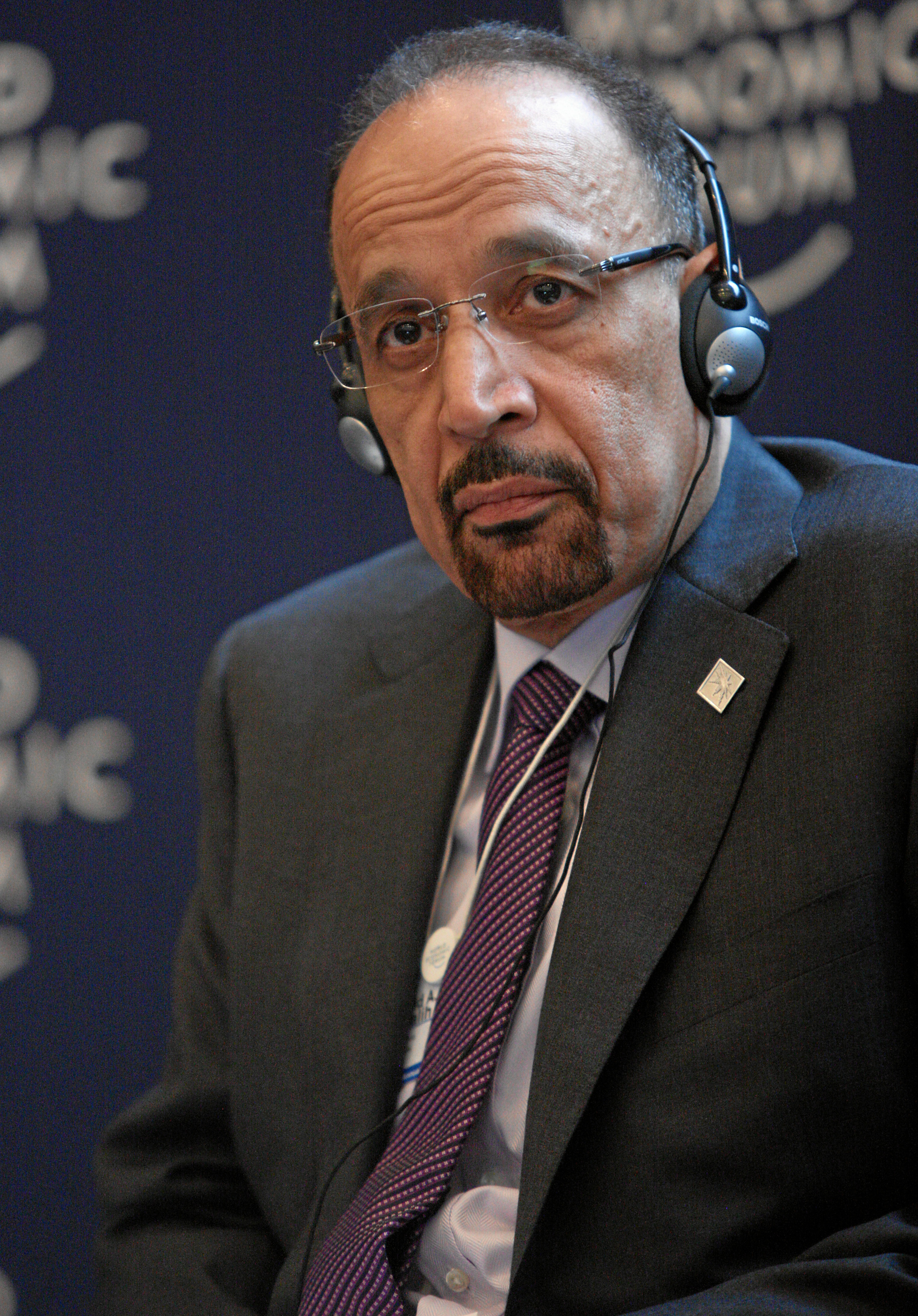 DAVOS/SWITZERLAND, 25JAN12 - Khalid A. Al Falih, President and Chief Executive Officer, Saudi Aramco, Saudi Arabia captured during the session 'The Global Energy Context' at the Annual Meeting 2012 of the World Economic Forum at the congress centre in Davos, Switzerland, January 25, 2012. Copyright by World Economic Forum by Remy Steinegger